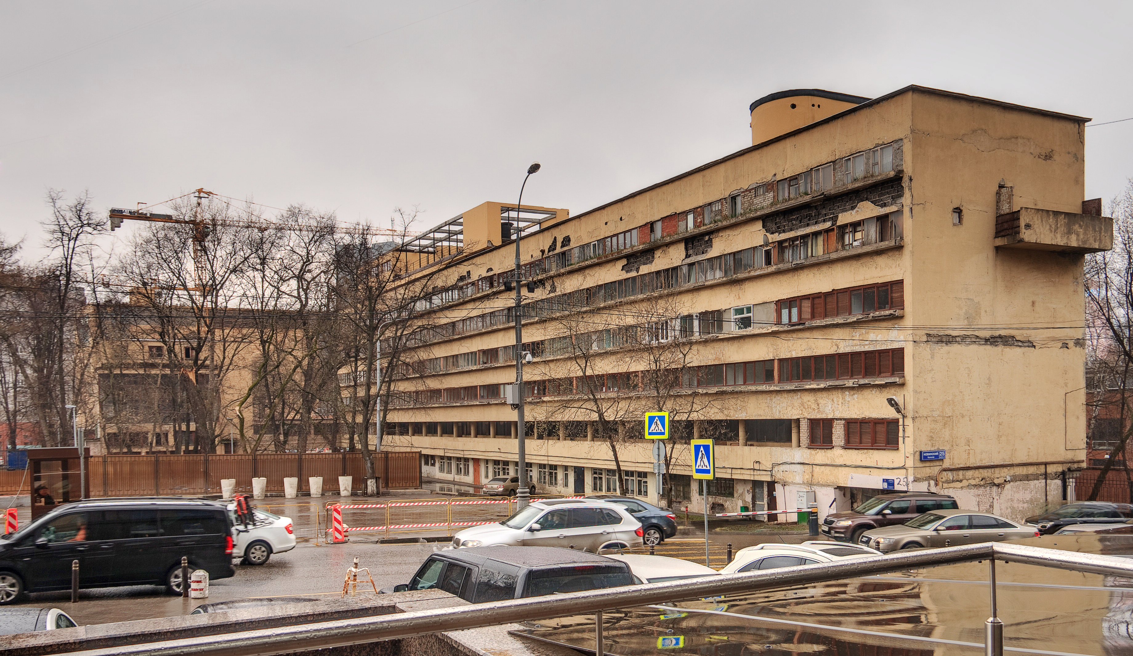 Narkomfin Building, Novinsky Boulevard 25, Moscow